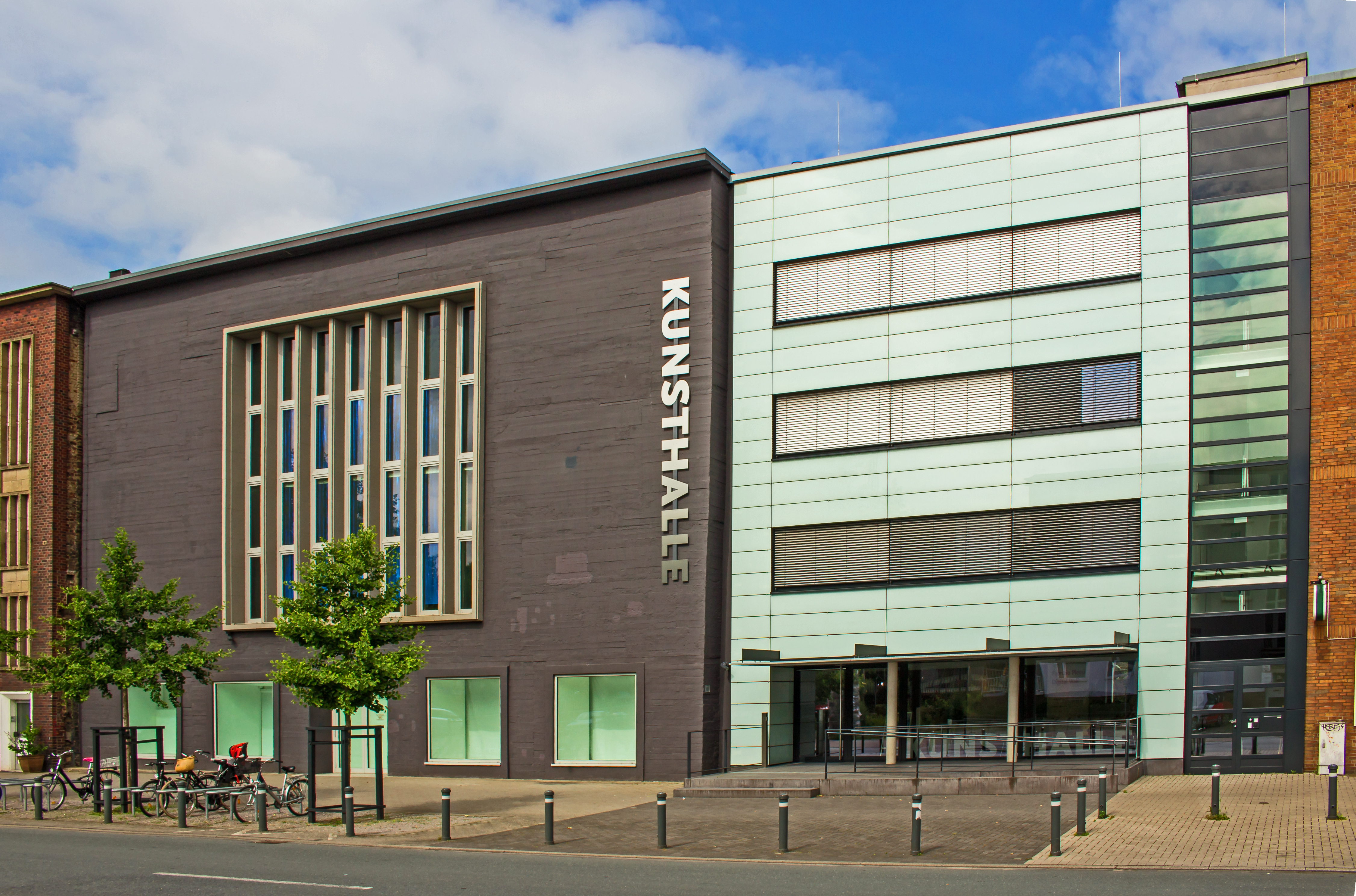 the "Kunsthalle" at Große-Perdekamp-Straße - Recklinghausen, North Rhine-Westphalia, Germany